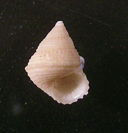 Perrinia concinna (A. Adams, 1864-f), a sea snail from the family Chilodontidae; Philippines